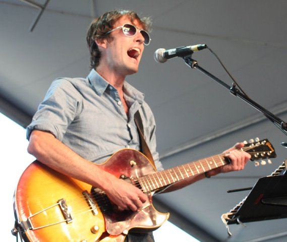 Andrew Bird performing at the Coachella Valley Music and Arts Festival in Indio, California, United States